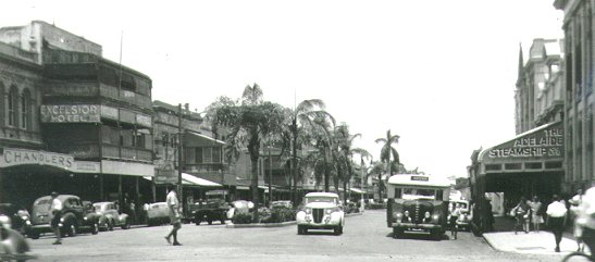 Flinders Street, the main street of Townsville, ca 1940. Chandlers and the Excelsior Hotel can be seen on the left, and the Adelaide Steamship Company building on the right. FWIIW, the postcard is late 1930s, the tourer coming towards the camera is a 36 or 37 Chevy I think, the car semi obscured car behind the bus looks like a 36 pontiac, the two-tone in front of Chandlers is perhaps a 37-8 Mercury.CheersLexysexy (talk) 00:03, 11 April 2013 (UTC)